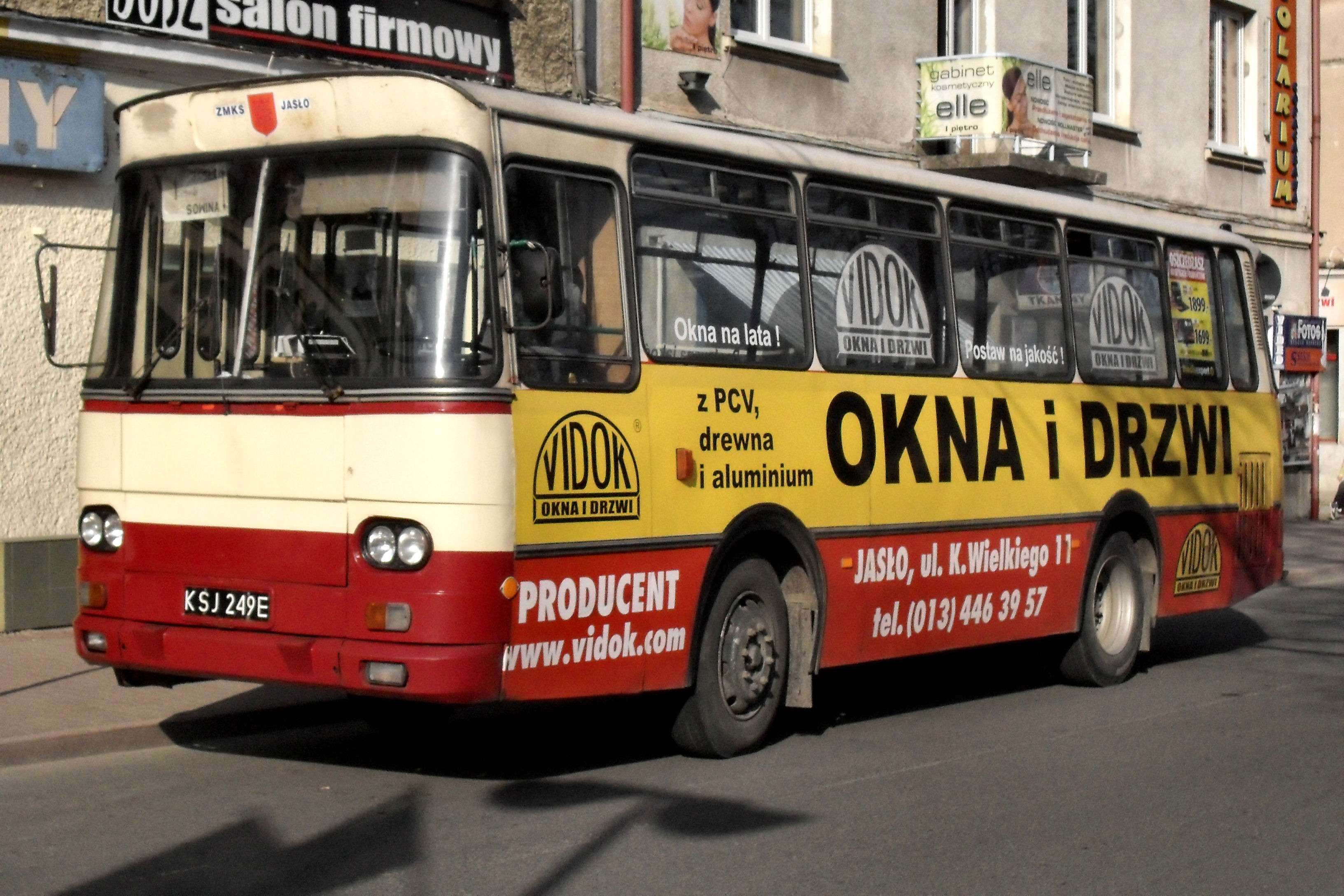 Autosan H9-35 (#128) which belongs to ZMKS Jasło. Built 1987.